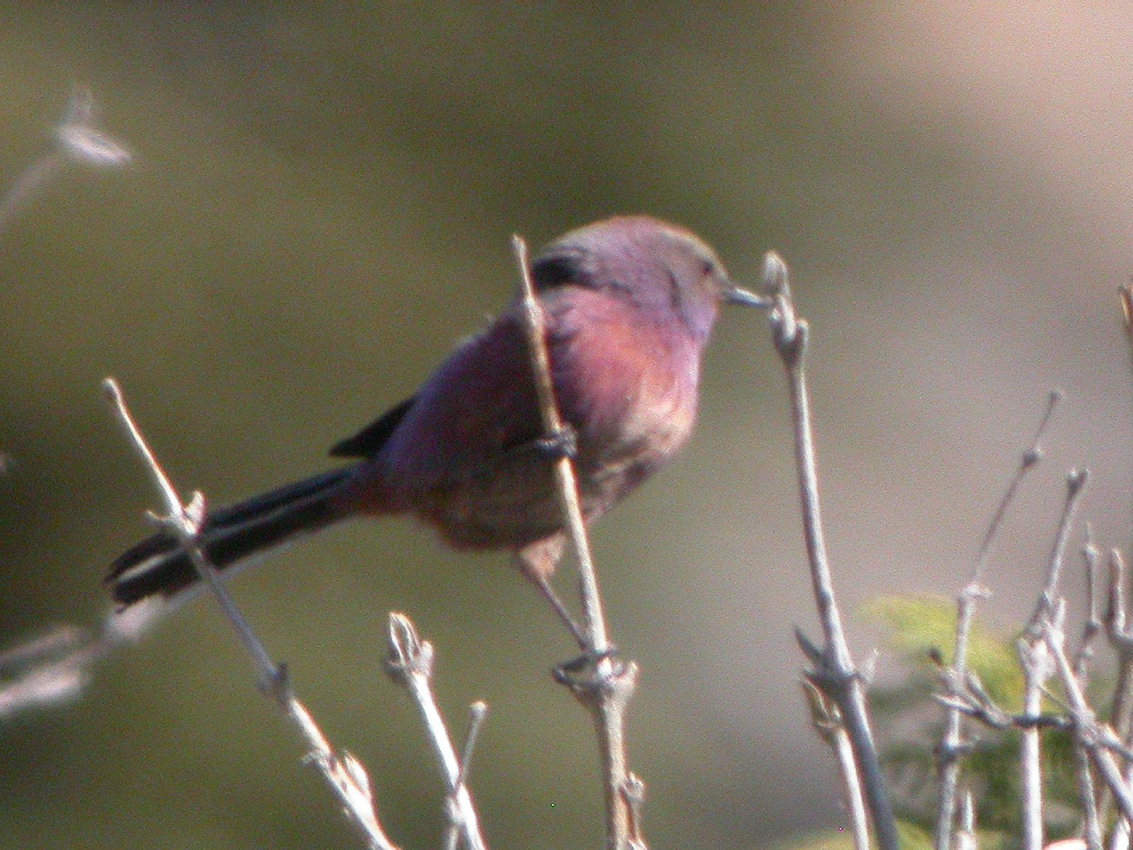 White-browed Tit-warbler (Leptopoecile sophiae)